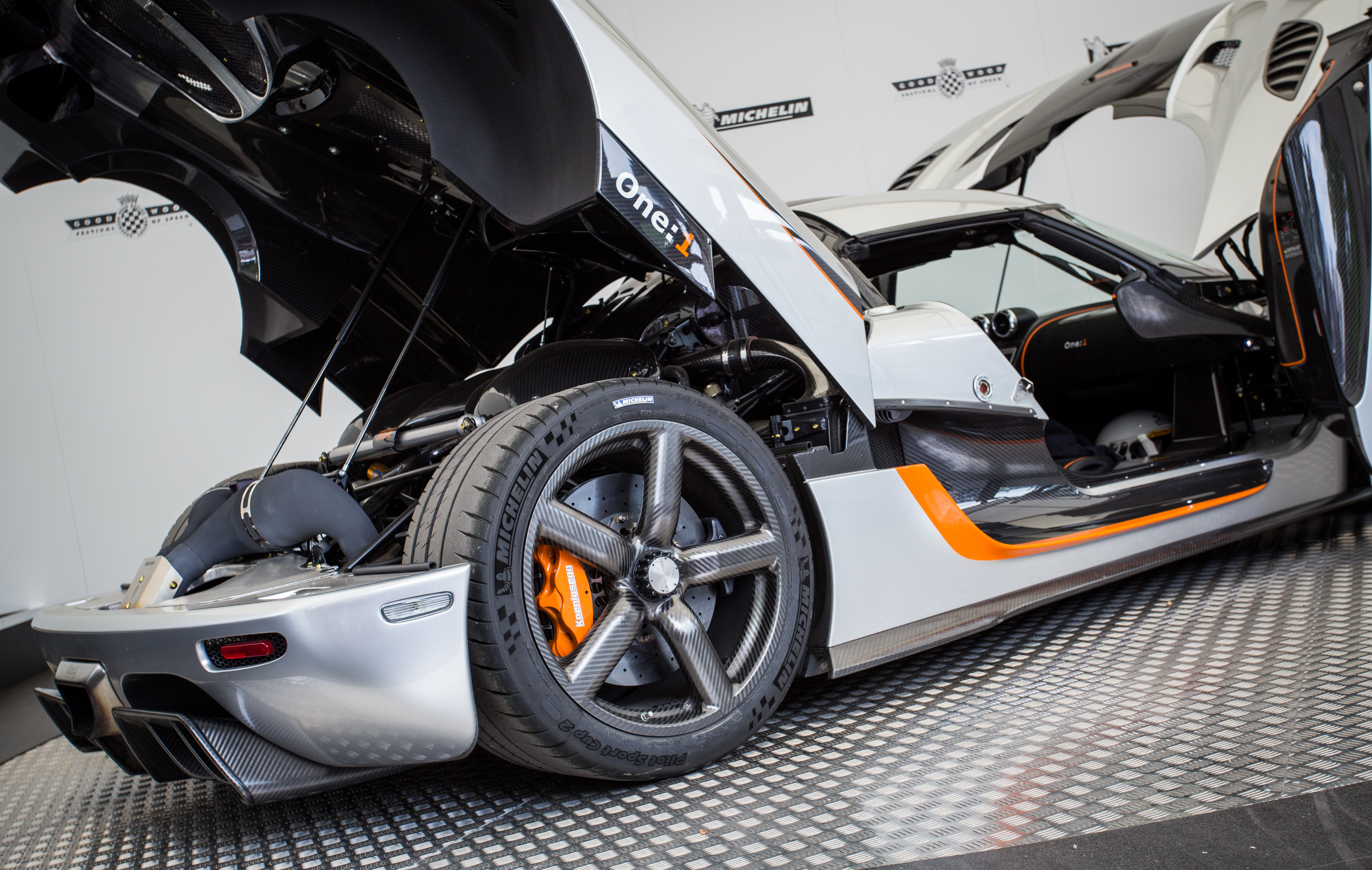 The Koenigsegg One:1 at the 2014 Goodwood Festival of Speed.